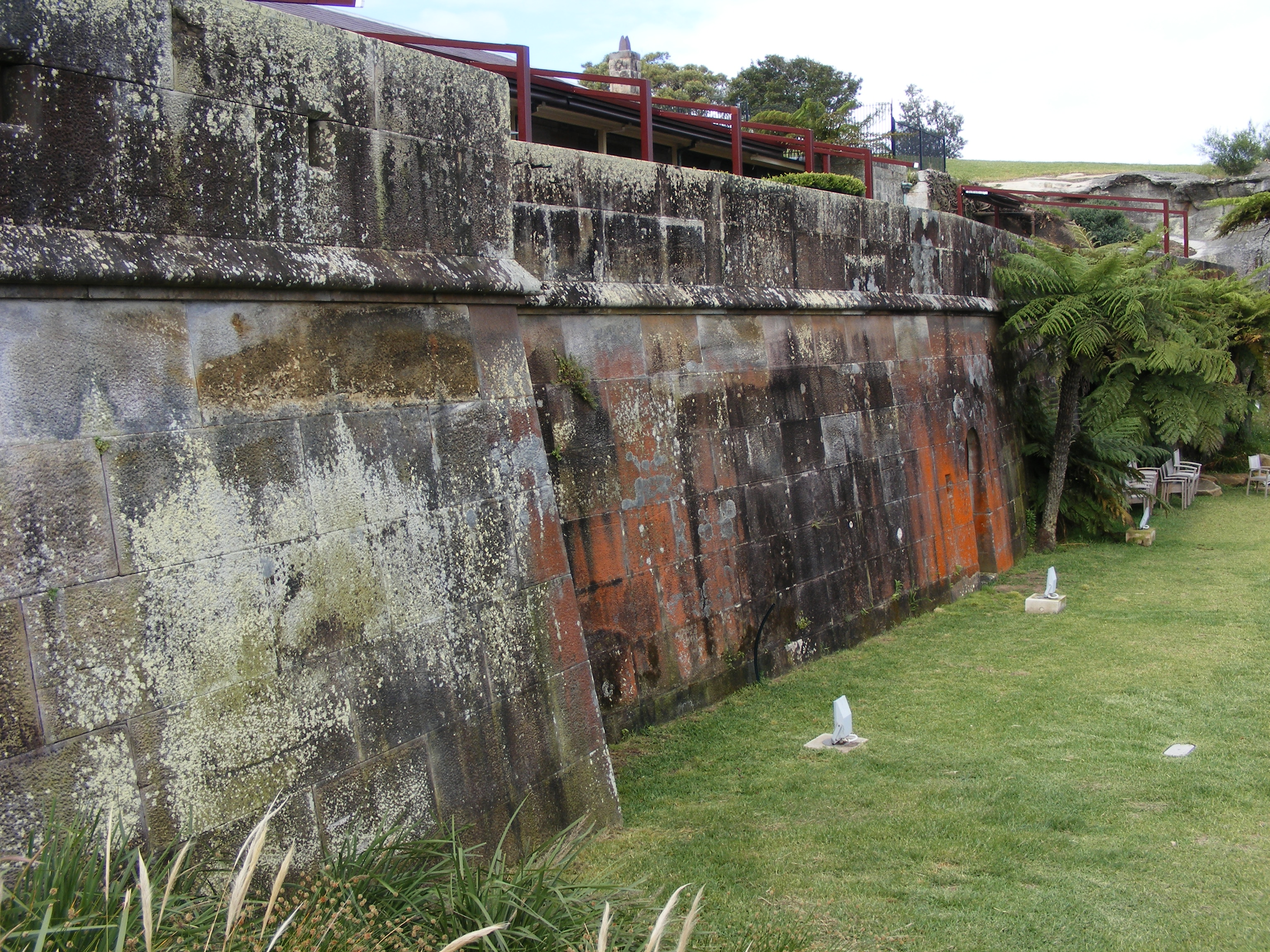 Sydney Harbour Defences. Inside a fort in Sydney Harbour. Georges Head Battery from outside.